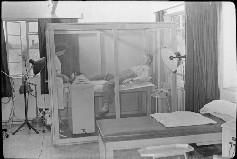 British Help American Wounded- Rehabilitation and Treatment, UK, 1944 A serviceman undergoes short wave diathermy treatment in a mesh cubicle or 'cage' at a hospital somewhere in Britain. Short wave diathermy is the application of radio waves around of 50-100 MHz frequency to the body to induce deep heat in tissues, used as part of physiotherapy, which can be applied continuously or pulsed. The original caption states that "it promotes deep healing - it heals septic conditions through dressings, for instance. This machine gives off wireless waves which interferes with short wave transmission. That is the reason from the wire box, which breaks up the waves". A nurse administers the treatment.